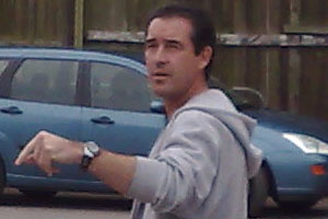 Picture taken by myself of Bob Taylor during the Conference North fixture between Tamworth & Worcester City on September 8, 2007.